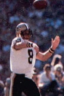 New Orleans Saints quarterback Archie Manning attempting a pass during a November 2, 1980 away game against the Los Angeles Rams.